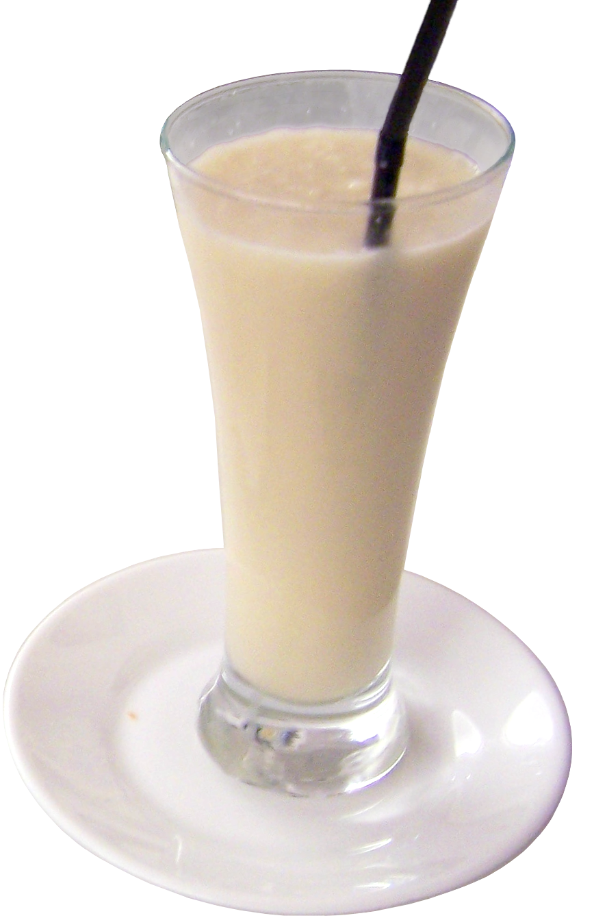 Horchata, a refreshing and delicious soft drink from Spain.